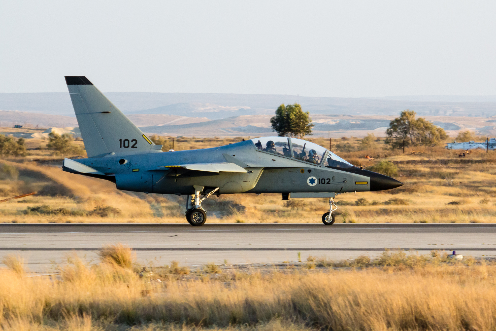 Israeli Air Force Alenia Aermacchi M-346 Lavi at Hatzerim airbase